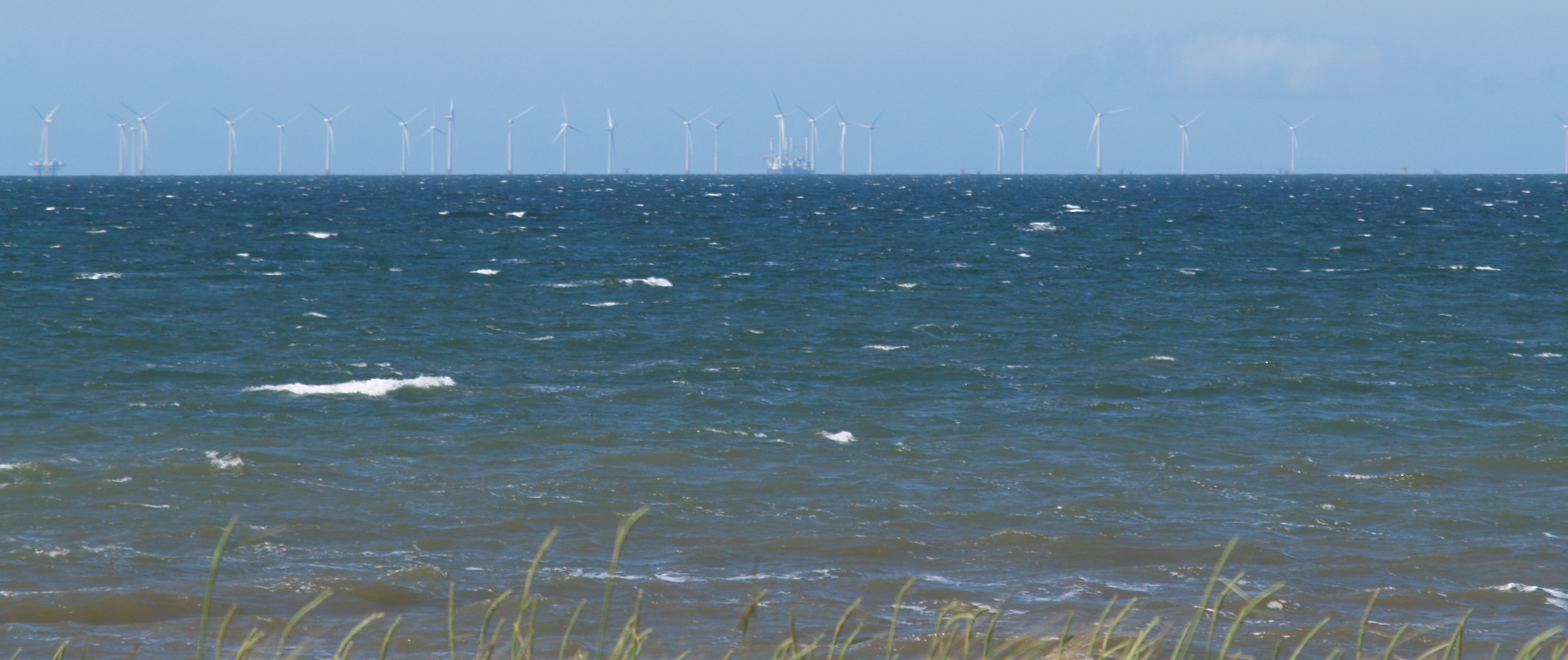 Robin Rigg wind farm as seen from just north of the village of Allonby in Cumbria.